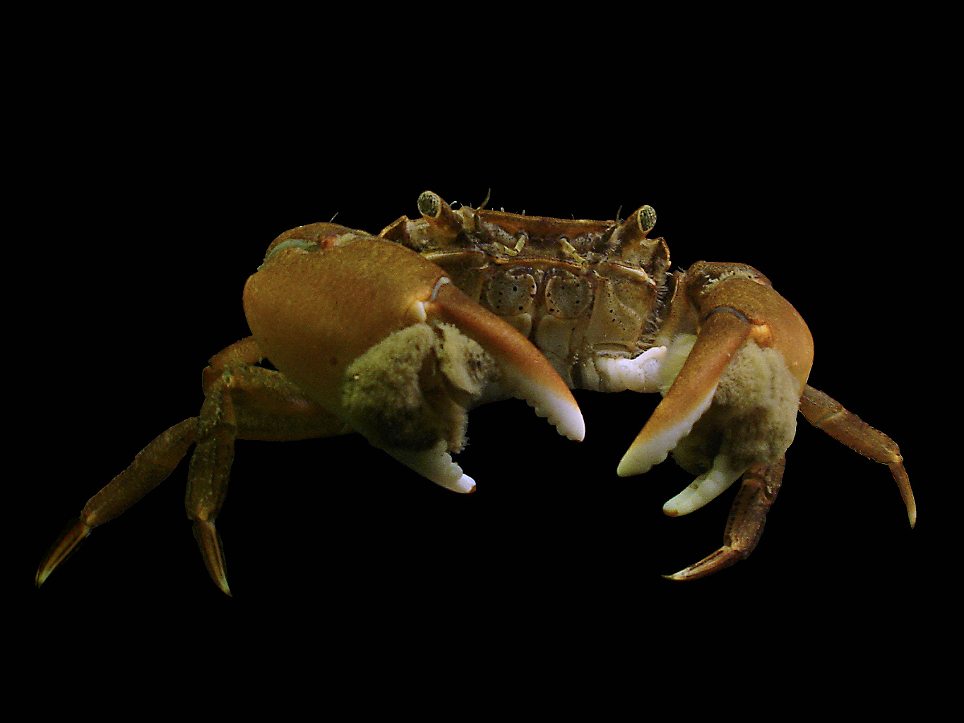 Brush-clawed shore crab from the Eastern Scheldt, Netherlands.